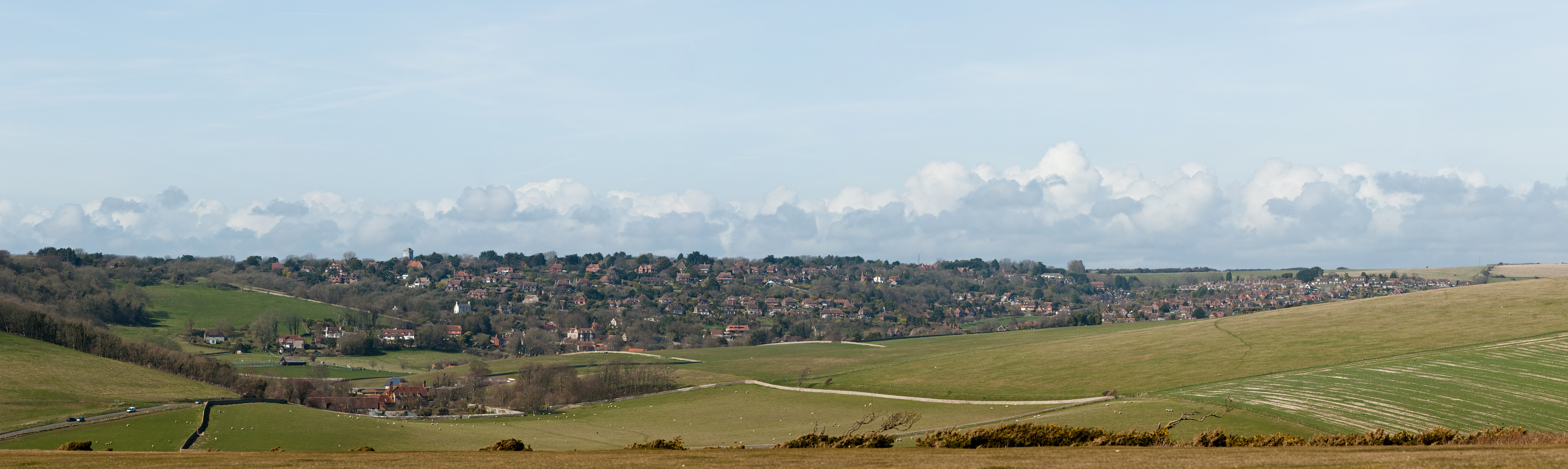 The villages of East Dean (lower valley) and Friston (upper valley) as viewed from along the South Downs Way near Birling Gap in East Sussex, England.